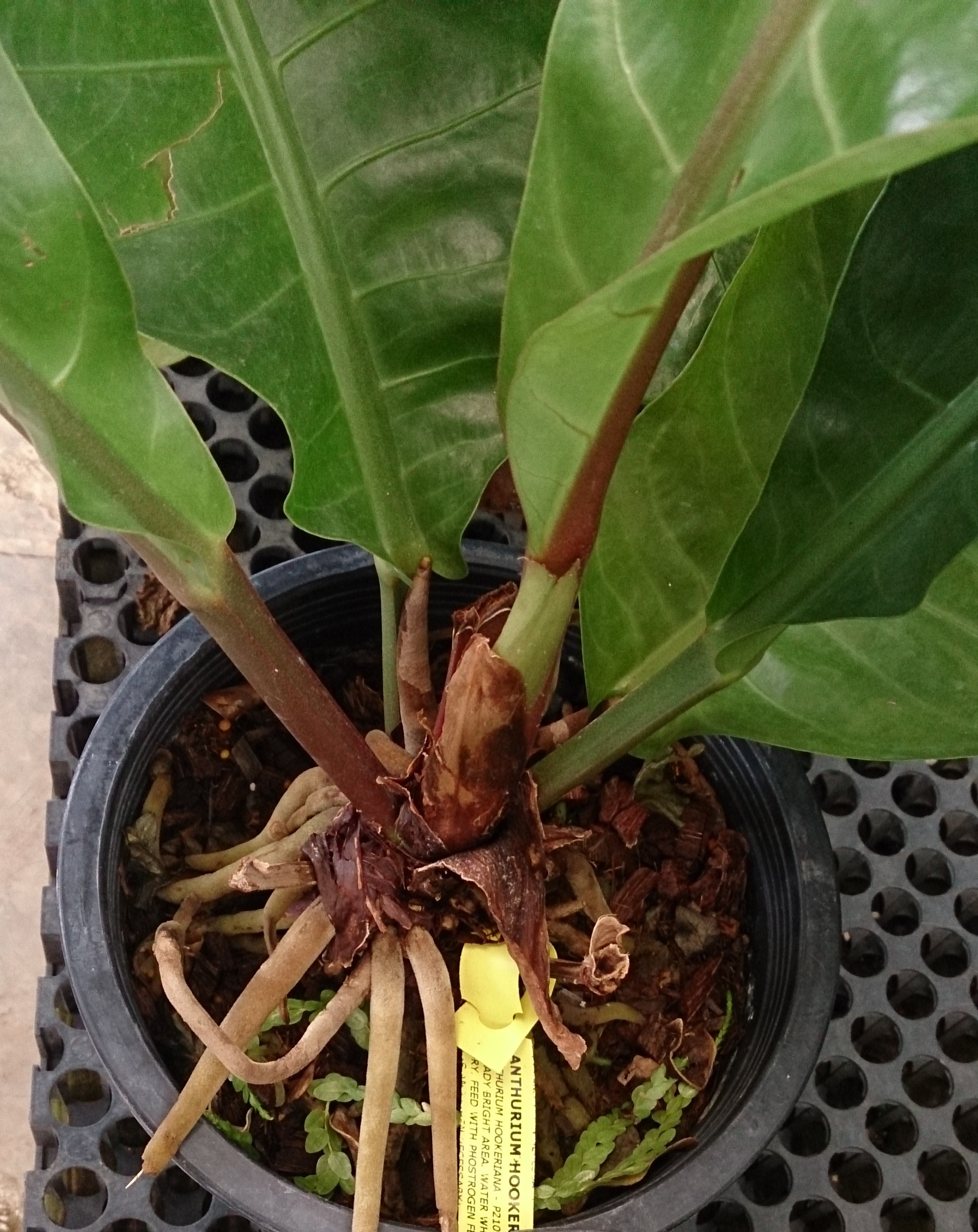 Anthurium hookeri. Common name: Birds Nest Anthurium